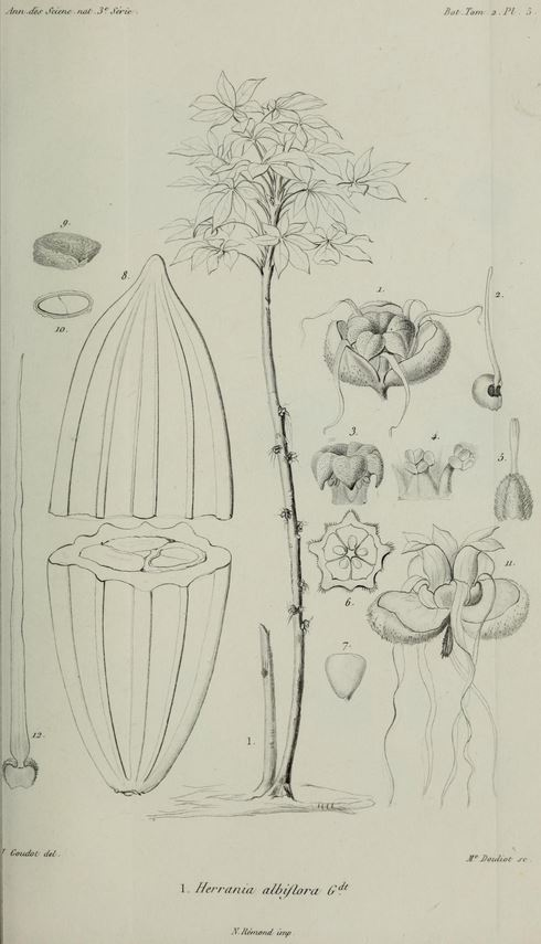 Herrania albiflora Explanaition